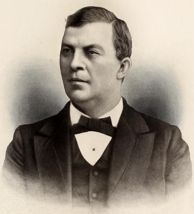 Simon P. Wolverton (Pennsylvania Congressman)